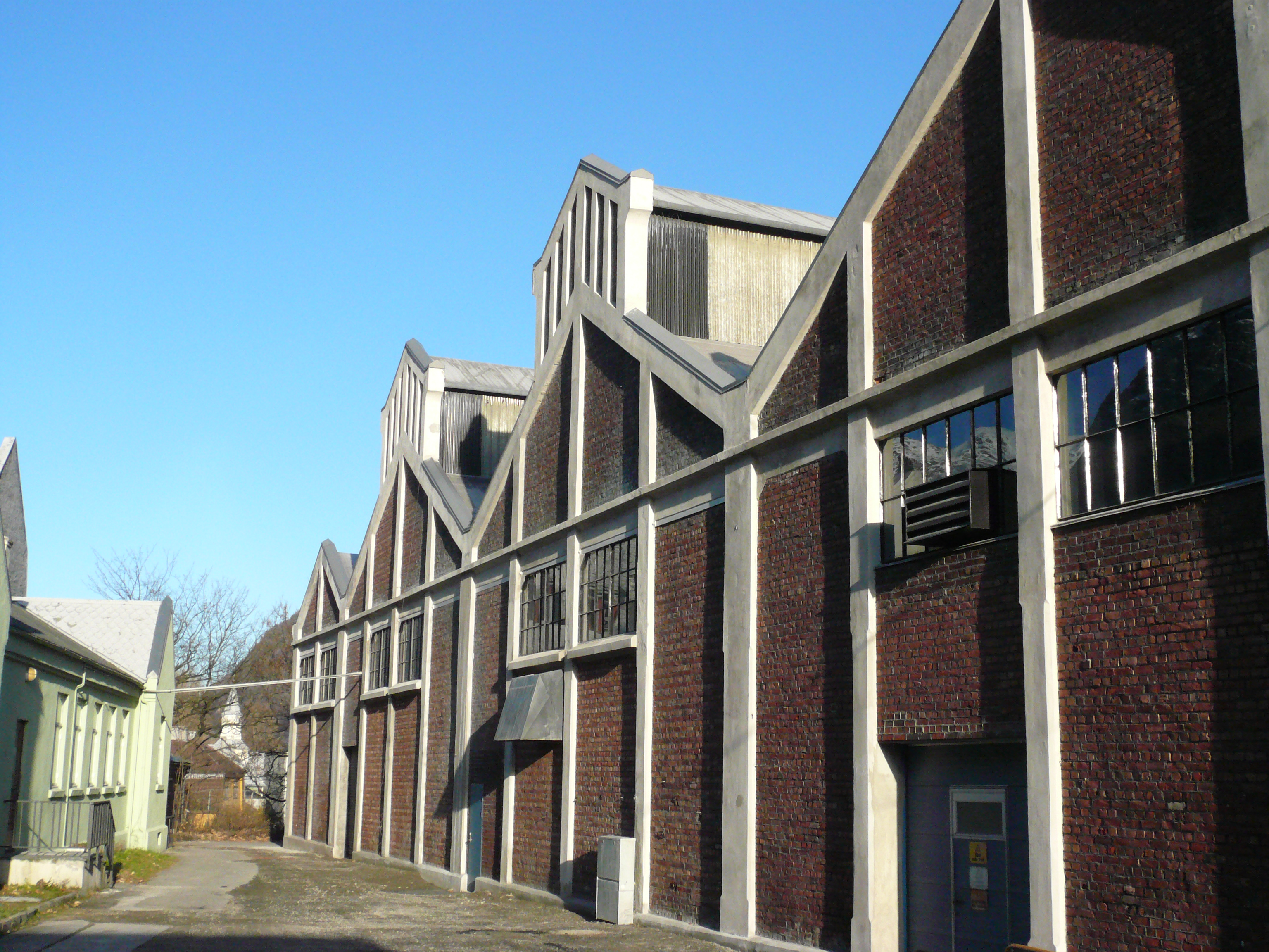 The Linde plant at Odda Smelteverk